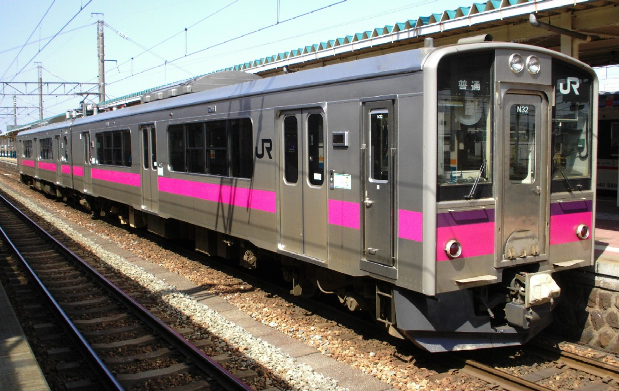 JR East 701 series 2-car EMU set N32 in Akita area livery at Sakata Station